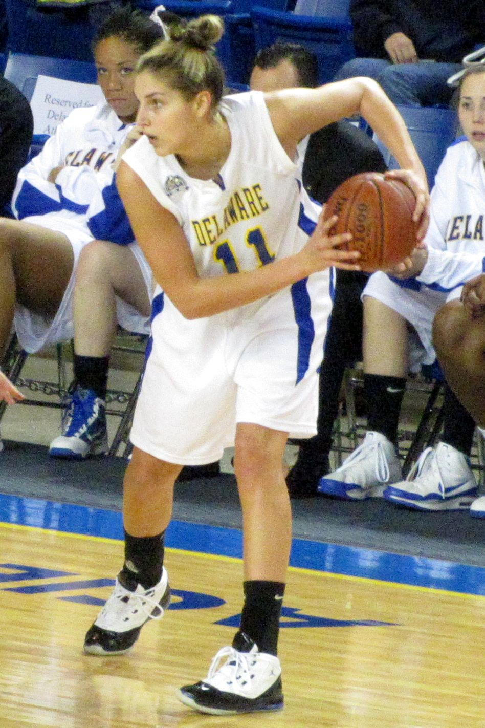 Elena Delle Donne in the second half of a home game in Delaware against Drexel on January 17th 2010. Elena played all 50 minutes in this double overtime game.